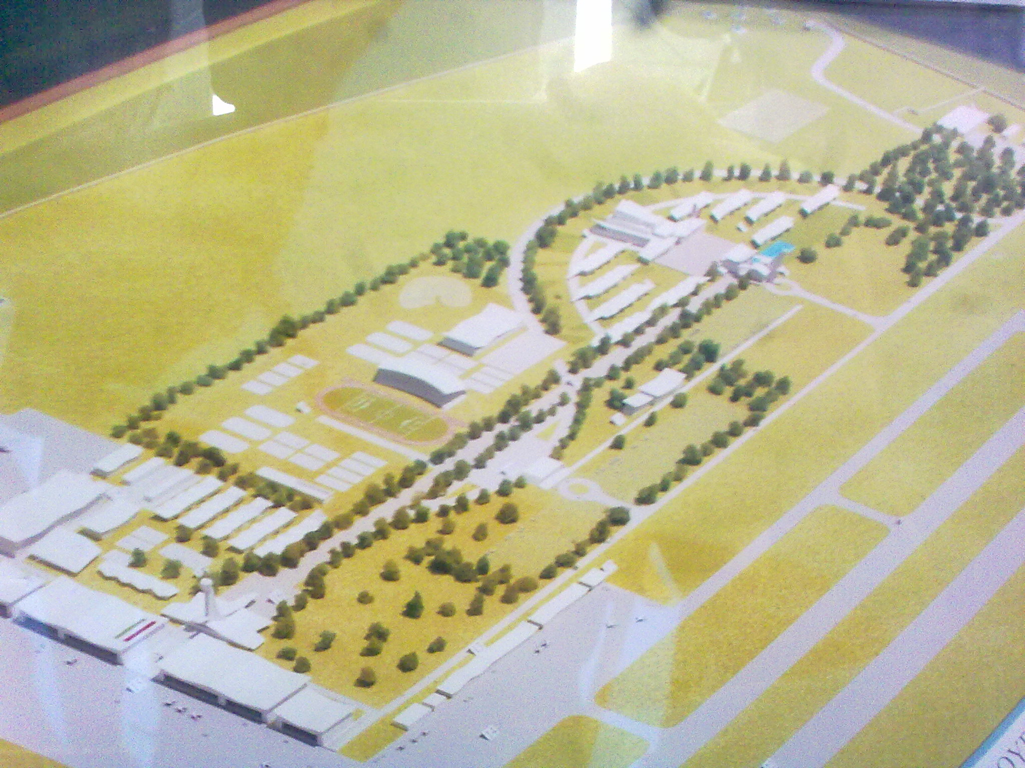 Model of New Colegio Del Aire.